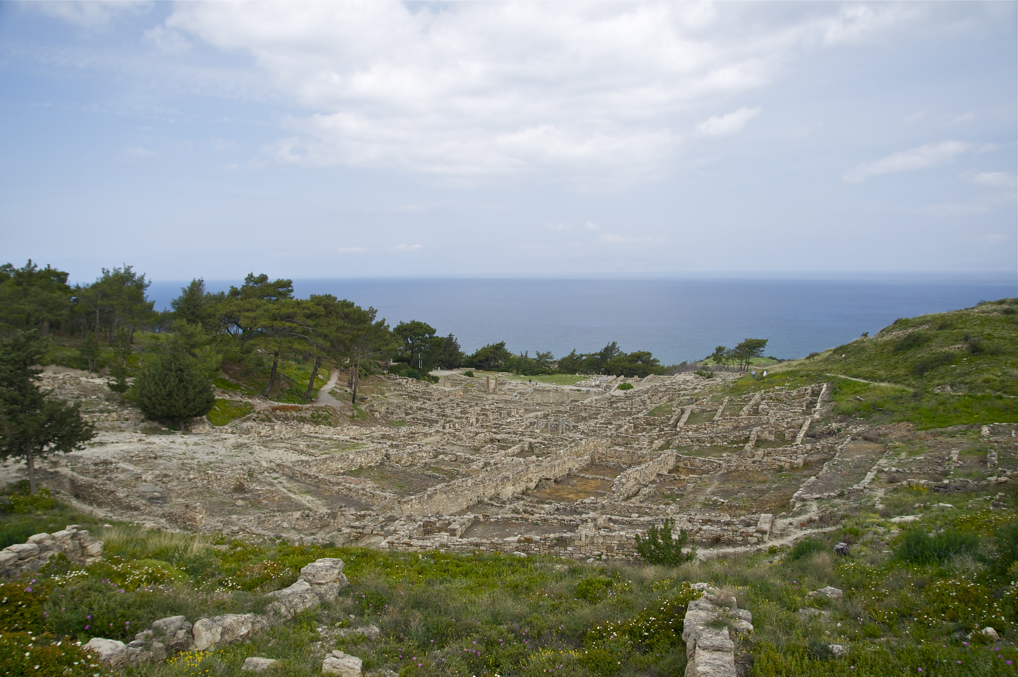 The site of the ancient city of Kameiros, island of Rhodes, Greece.